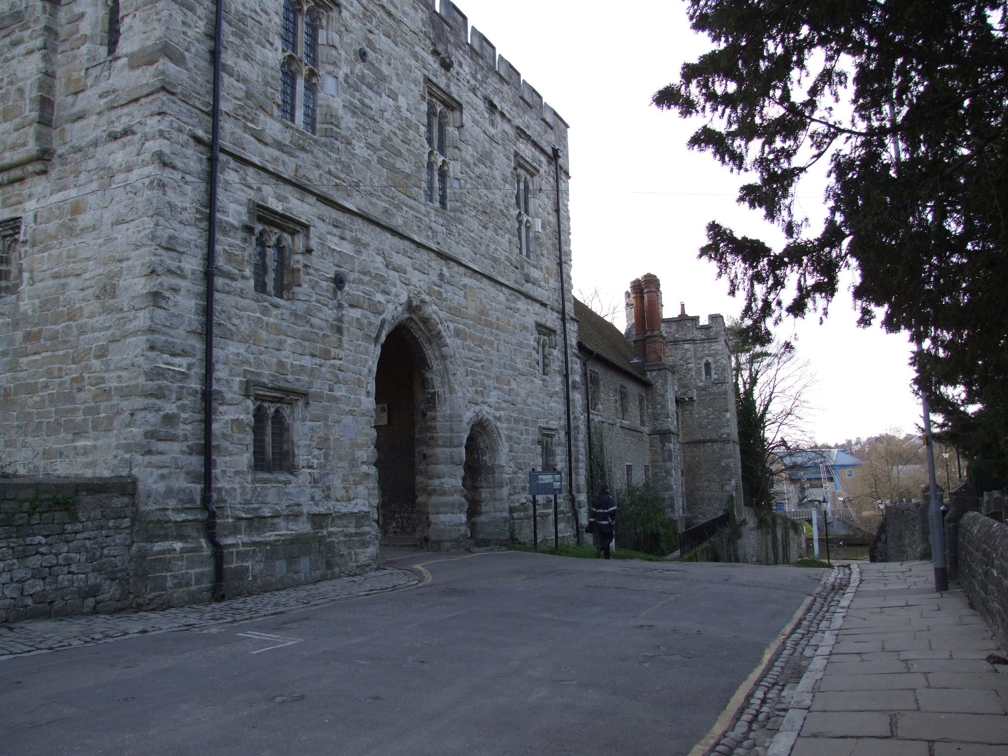 Gatehouse to All Saints College, over the Horse wash from the church.